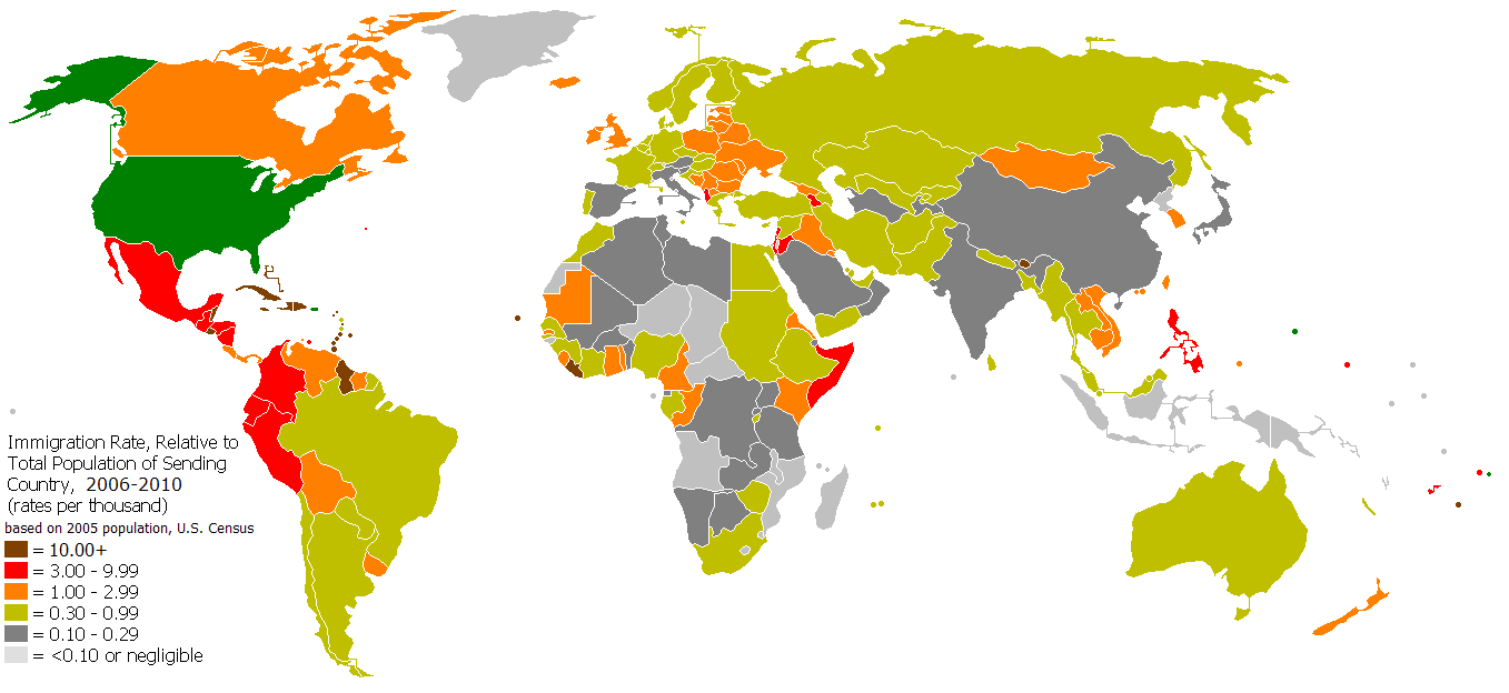 Shows the five-year (2006-2010) legal emmigration rate to the United States per country's total 2000 population, defined as all those who received legal permanent residence in all categories, including regular immigrants, refugees and asylees, diversity lottery winners, and others. Immigrants from "Czechoslovakia (former)" included in data for Czech Republic, those from "Soviet Union (former)" included in data for Russia, and those from Serbia, Montenegro, Kosovo, and "Serbia and Montenegro" included in Serbia and Montenegro. French possessions no longer have separate statistics, so are colored the same as France.